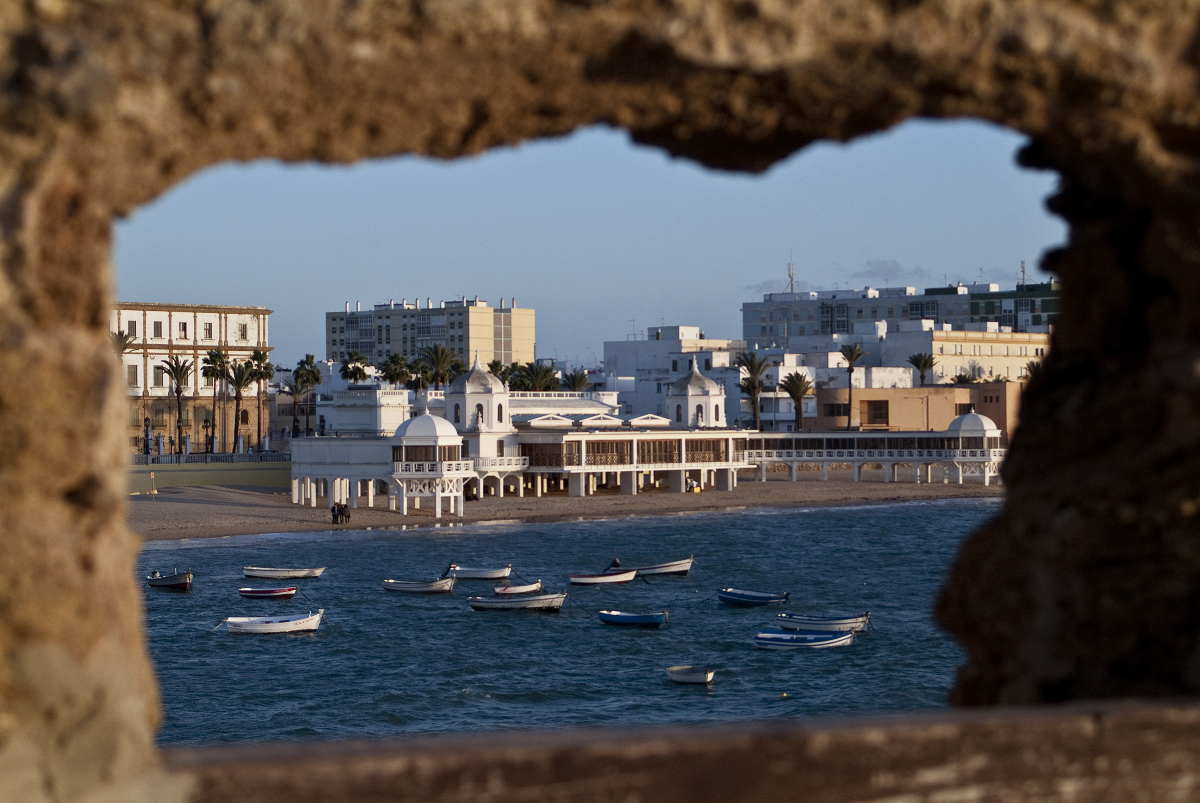 Spa of Nuestra Señora de la Palma y del Real